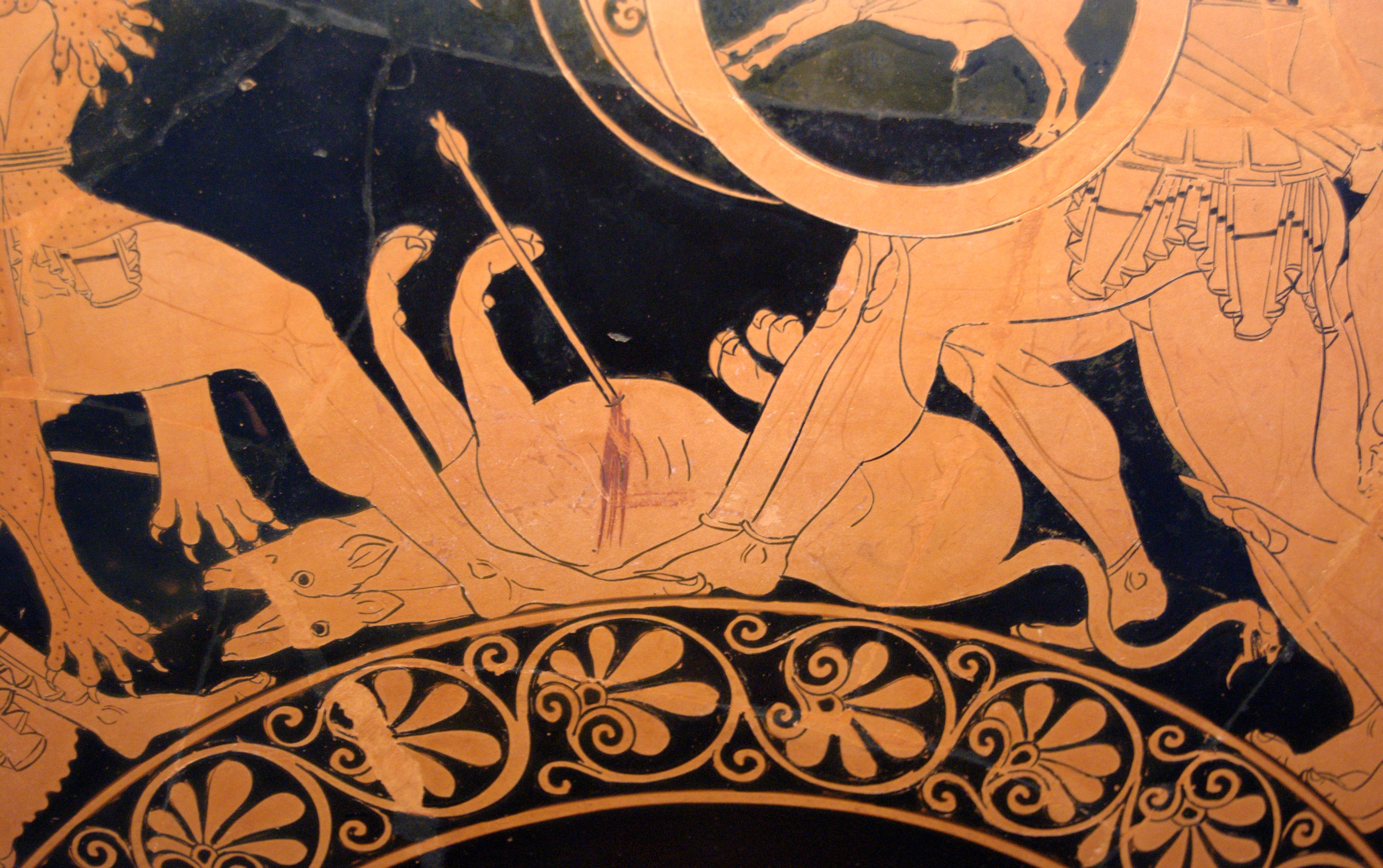 Orthrus dead at the feet of Geryon and Heracles. Side A of an Attic red-figure kylix, 510–500 BC. From Vulci.